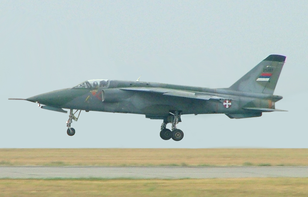 1J-22 Orao landing, Kecskemét